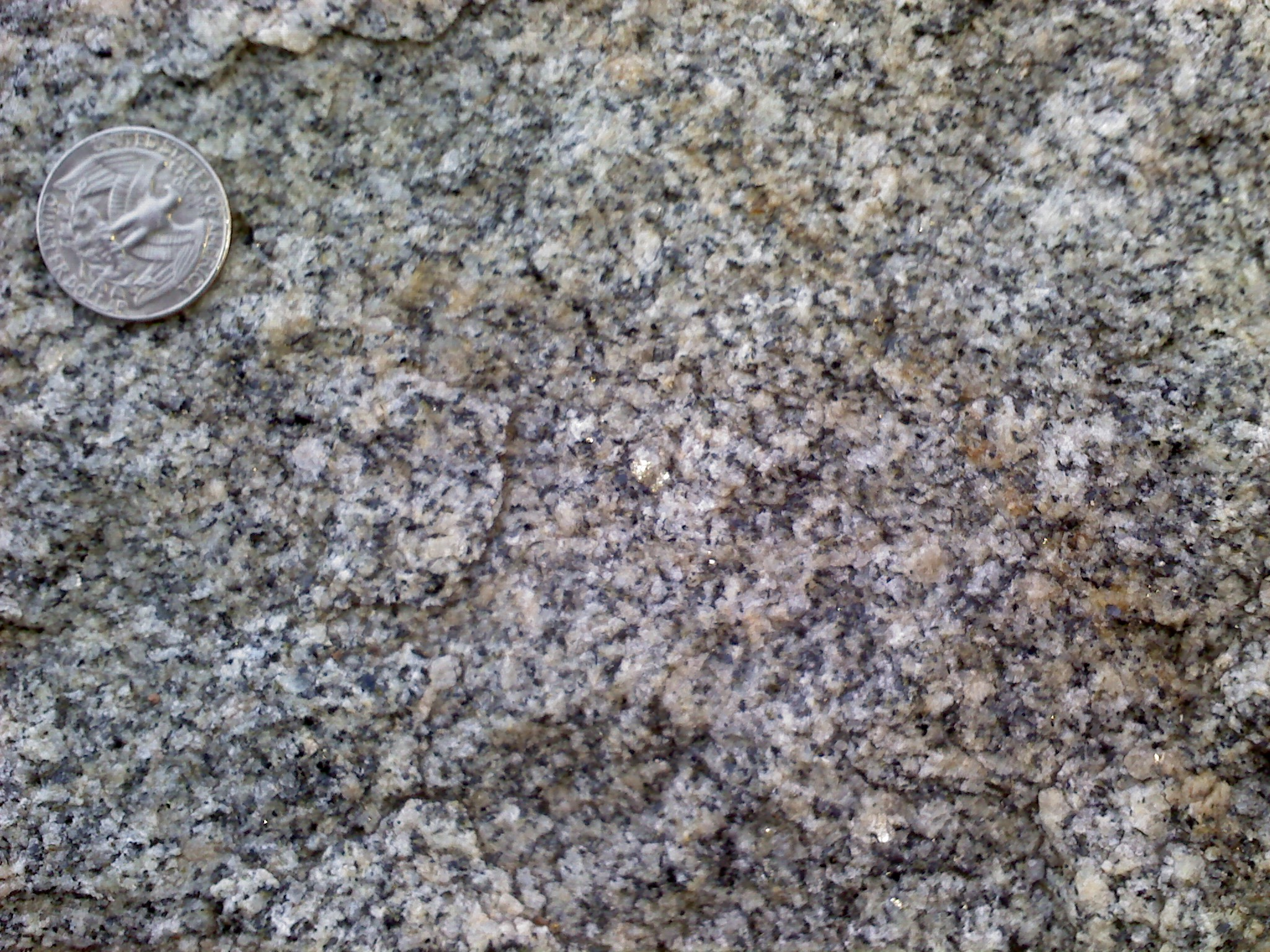 Woodstock Quartz Monzonite of Ordovician or Silurian age. Photographed on a boulder in Granite on 10 Jan. 2013. US Quarter for scale.